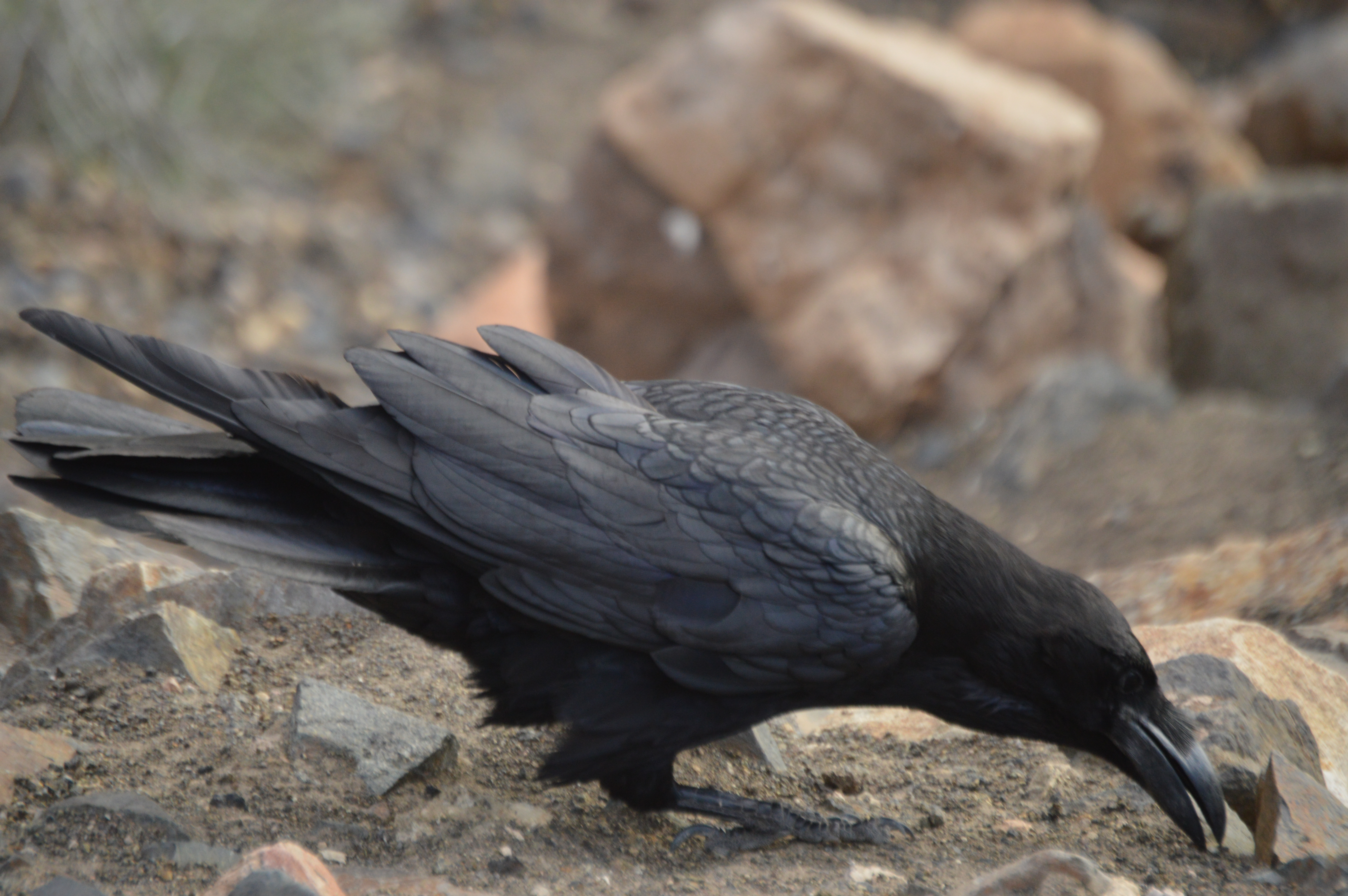 Fuerteventura, Canary Islands